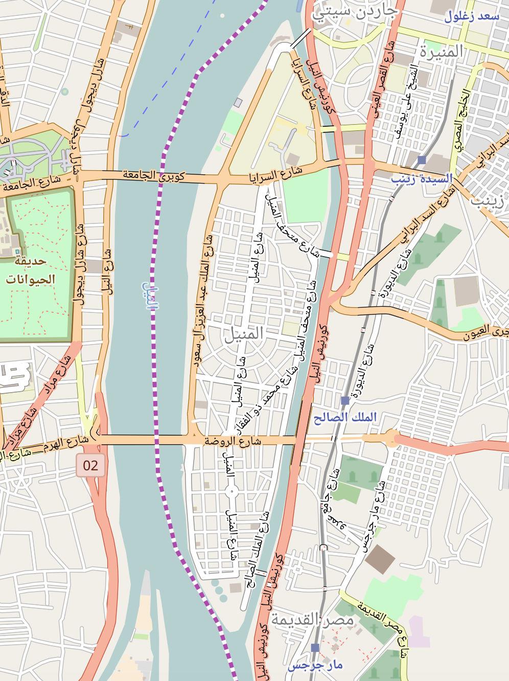 Image of an Open Street Map rendering of Rhoda Island